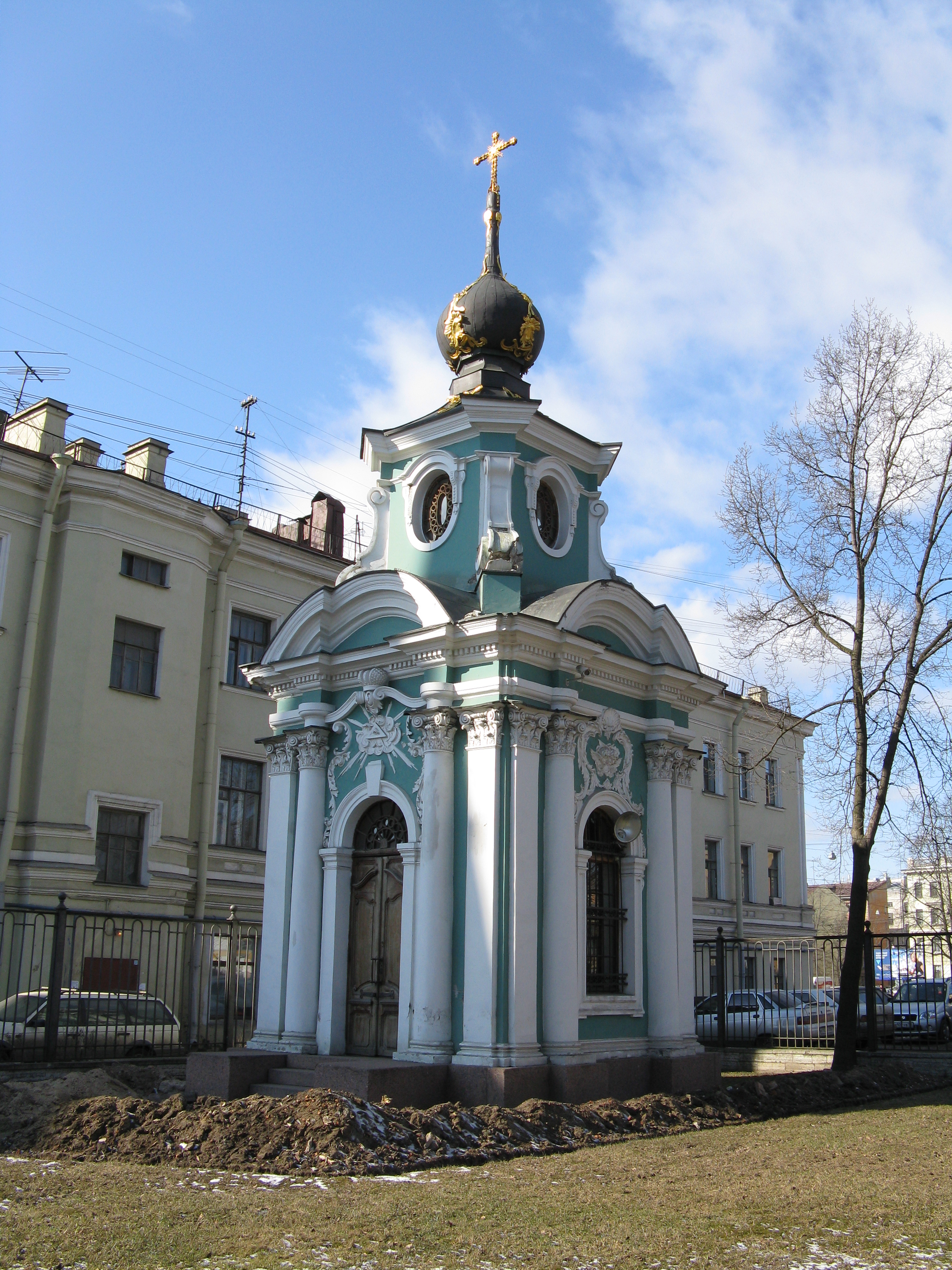 Chapel of Sampsonievsky Cathedral (St.-Petersburg, Russia)